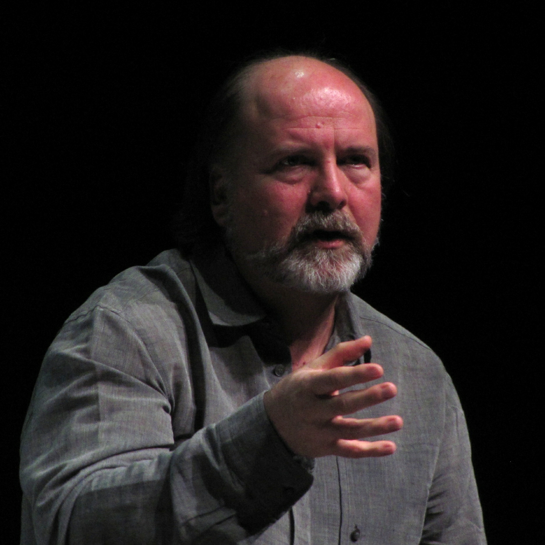 Danny Hillis speaking at "The Long Now, now" at the Palace of Fine Arts Theater in San Francisco, January 21, 2014.